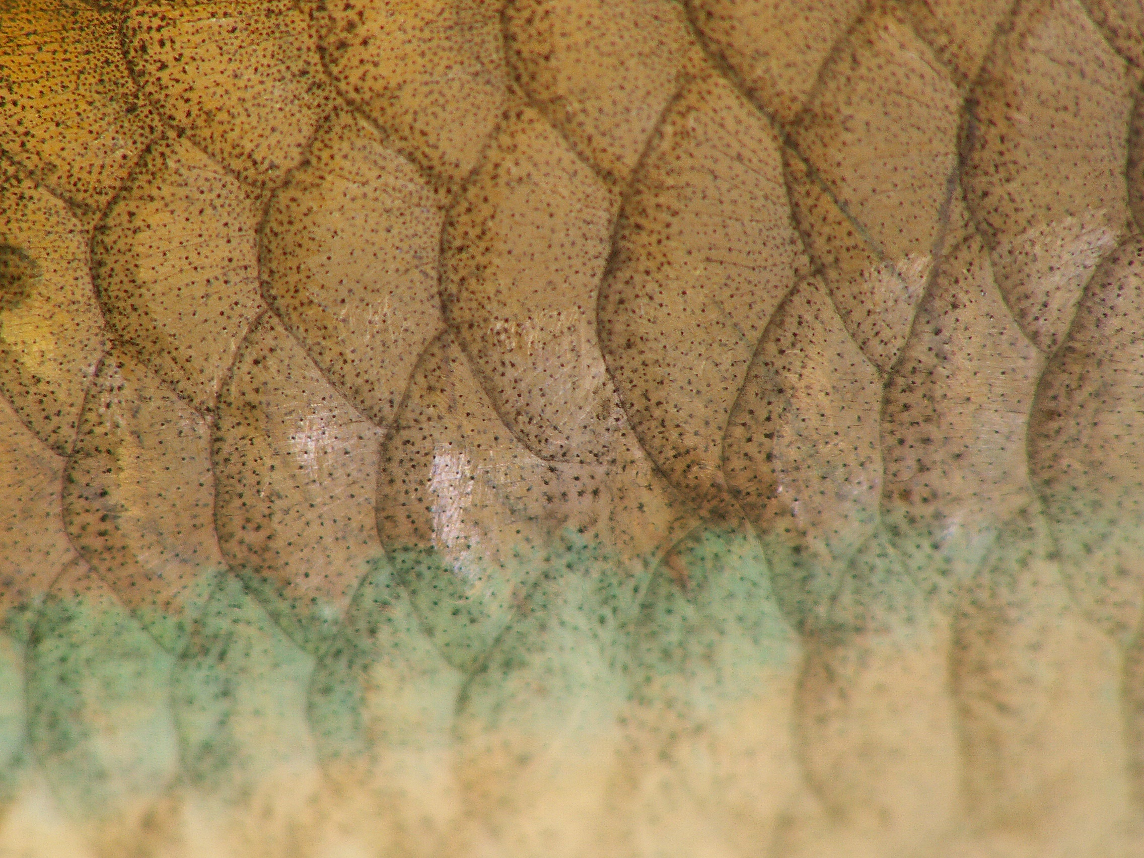 Scales of European Bitterling (Rhodeus amarus)from the hindflank. The bluegreen colour of the tailstripe comes from the epidermis, background colour from the dermis.